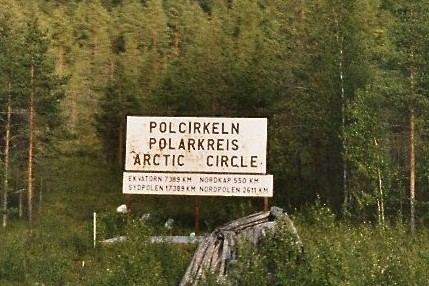 Polarcircle by Murjek (Sweden)